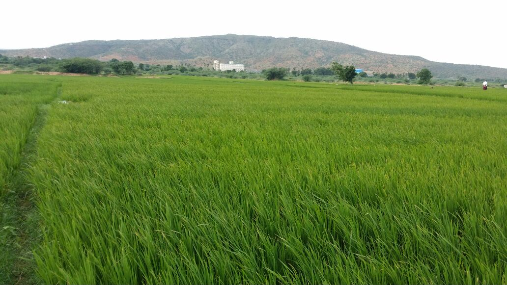 Paddy fields near kdp